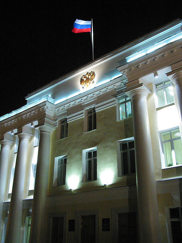 Nizhny Novgorod, Seat of the oblast administration, inside the Kremlin